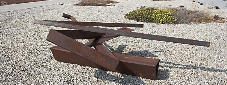 Artwork of Robert Mittringer: Without title,in Skulpturenpark Artpark Linz